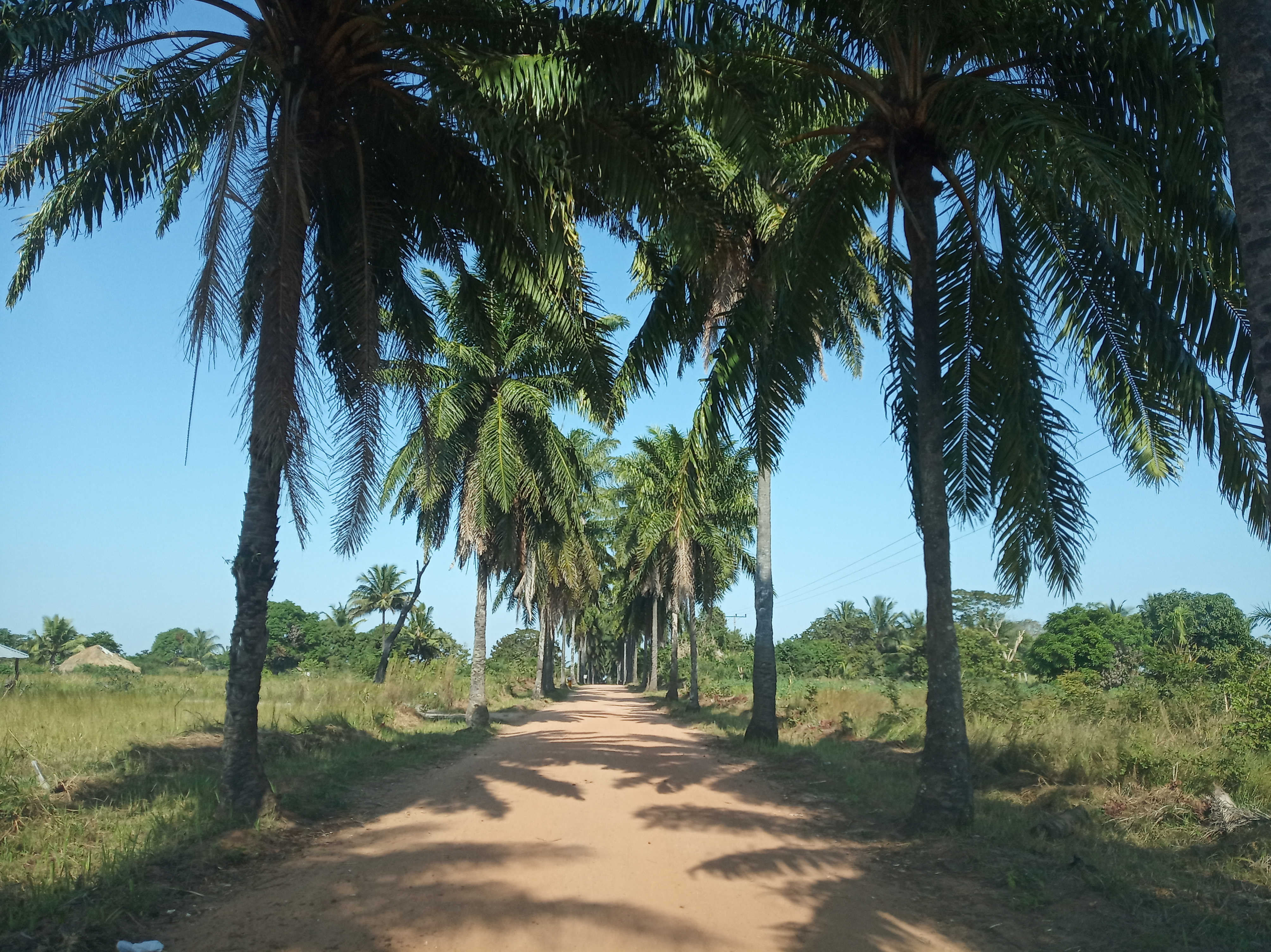 A man made made natural looking path This is an image with the theme "Africa on the Move or Transport" from: Mozambique